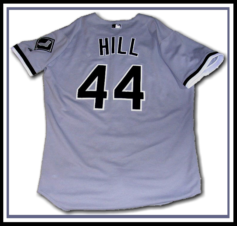 Ken Hill 2000 game-issued Chicago White Sox away uniform. This authentic jersey was issued for the 2000 MLB Playoffs but was never worn as Hill was waived by the White Sox prior to the start of the post-season. The photograph was taken from the photographer's sports memorabilia collection with a Nikon Coolpix e3200 digital camera and edited using ArcSoft PhotoStudio 5.5